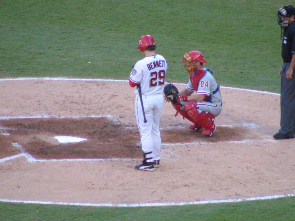 Gary Bennett The Nats' catcher had a so-so year, both at the plate and behind it.